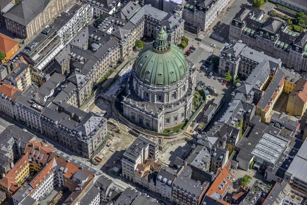 Air photo of the City Circle Line being built, part of the Copenhagen Metro. I got the following permission to use these images from kjeld madsen on 2014-10-07: Dragør Luftfoto ApS frigiver hermed billederne i galleriet under licensen Creative Commons Attribution ShareAlike 3.0 license.